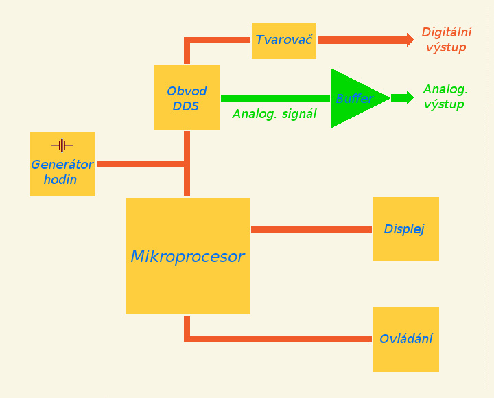 Generator